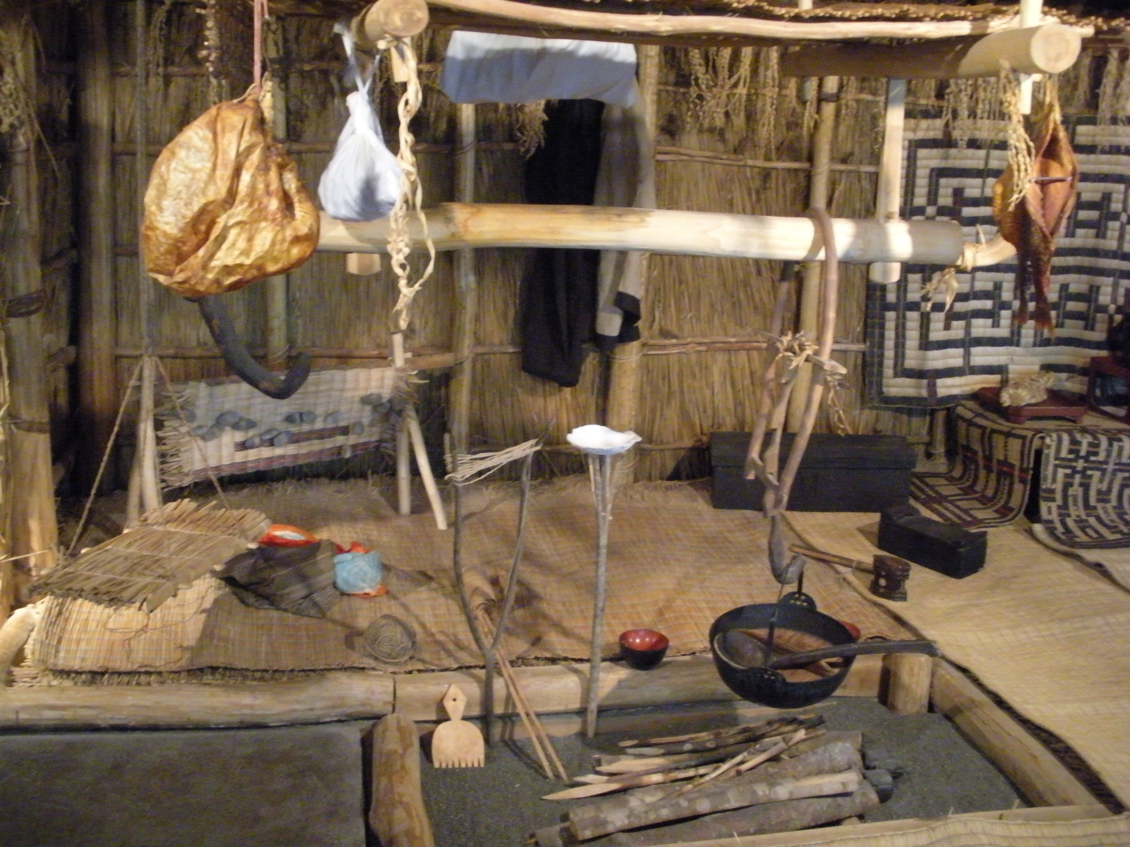 Japan hokkaido Ainu traditional house”cise”